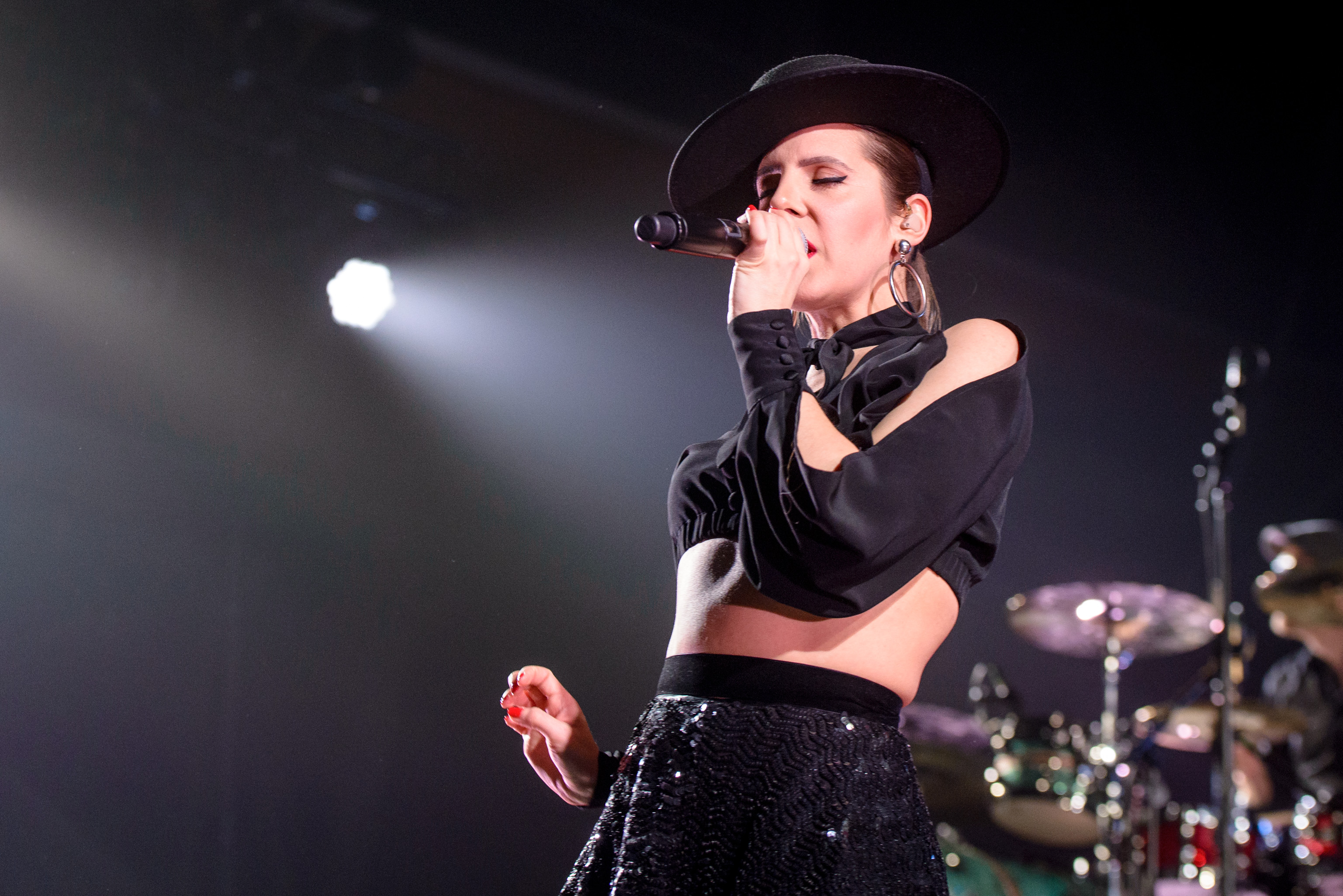 Parov Stelar Live @ Munich 2016